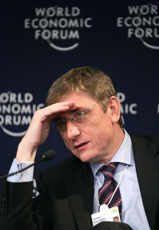 DAVOS/SWITZERLAND, 25JAN07 - Ferenc Gyurcsany, Prime Minister of Hungary captured during the session 'Ensuring Future European Growth' at the Annual Meeting 2007 of the World Economic Forum in Davos, Switzerland, January 25, 2007. Copyright by World Economic Forum by E.T. Studhalter